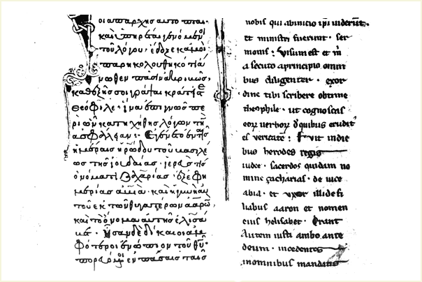 page from the Greek-Latin minuscule manuscript of the New Testament, on a parchment from the 1292 year designated by 165 in the Gregory-Aland numbering